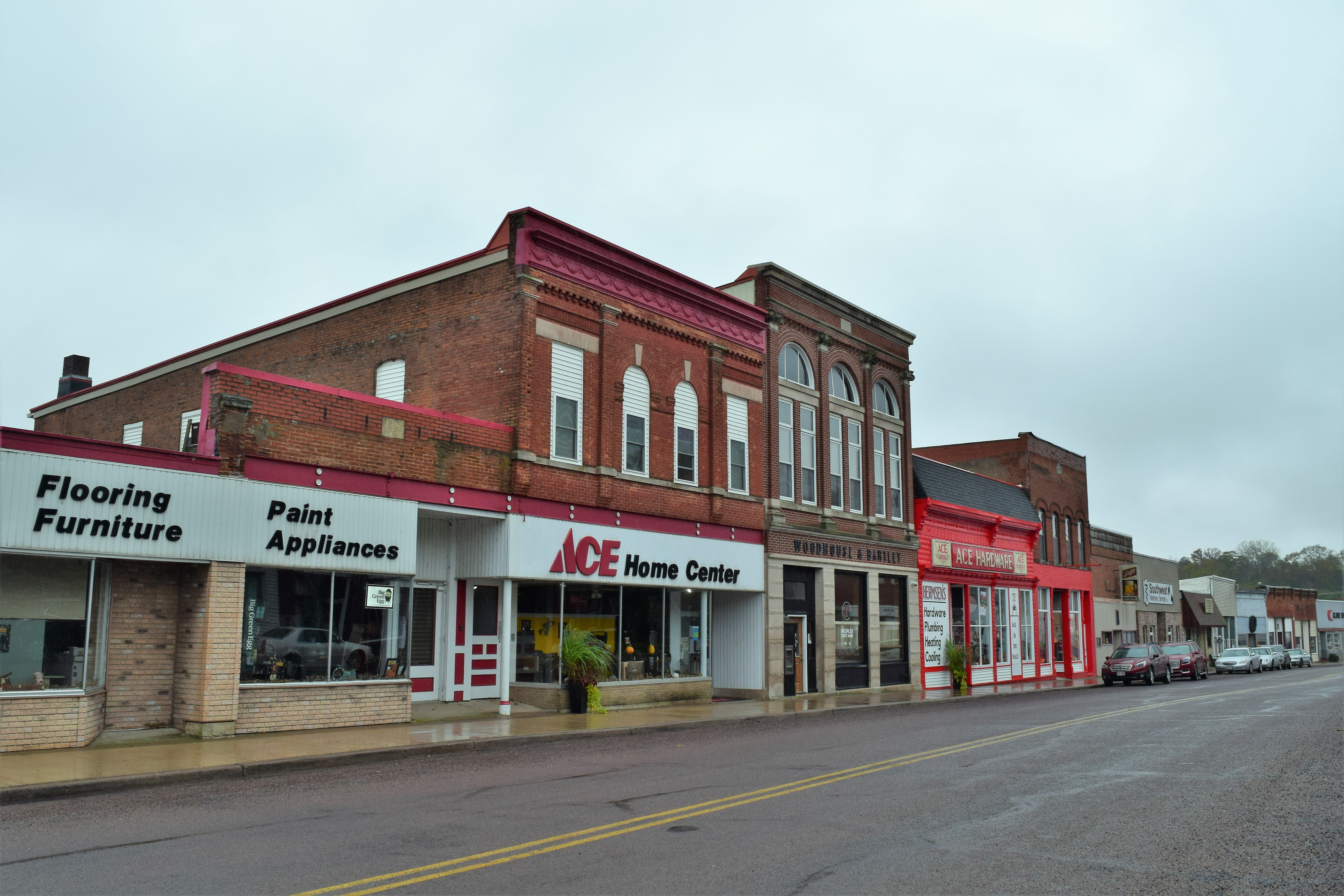 Stores in downtown Bloomington, Wisconsin.